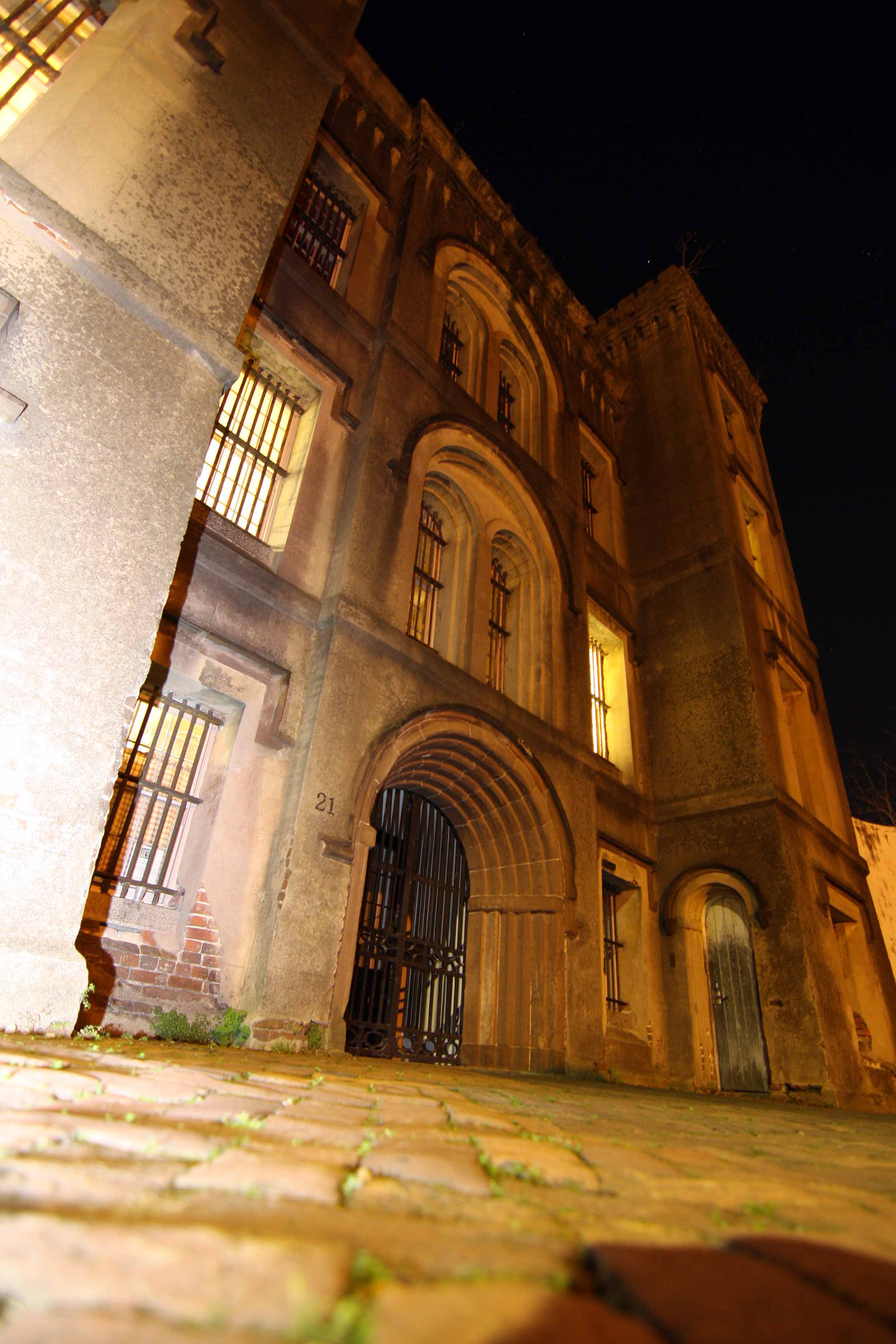 Night time view of Charleston's Jail.